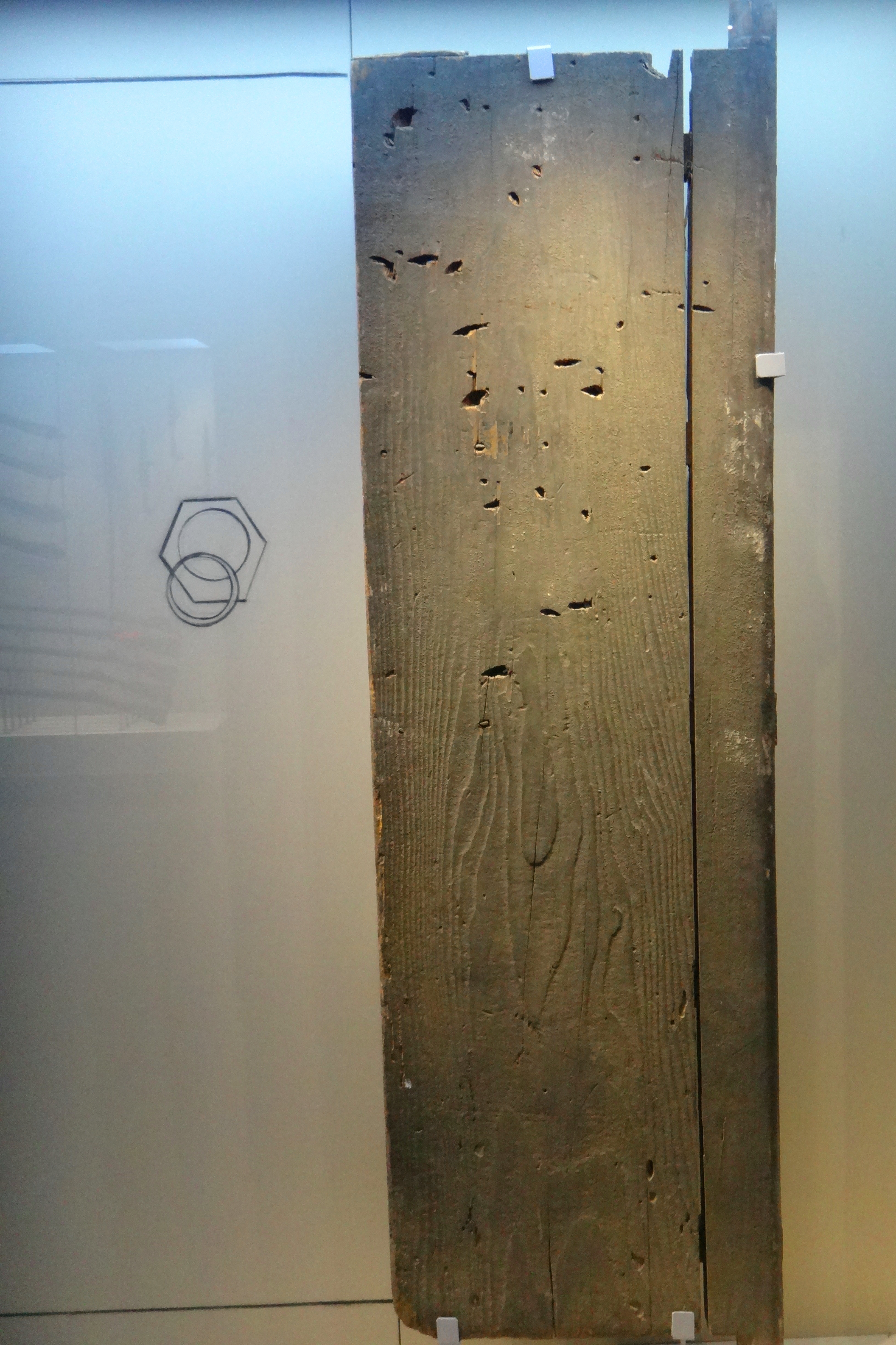 A door plank of Lei Shen Temple (Temple of Thunder God) .A battle between CCP and Japanese Army broke out in the temple in 1938.